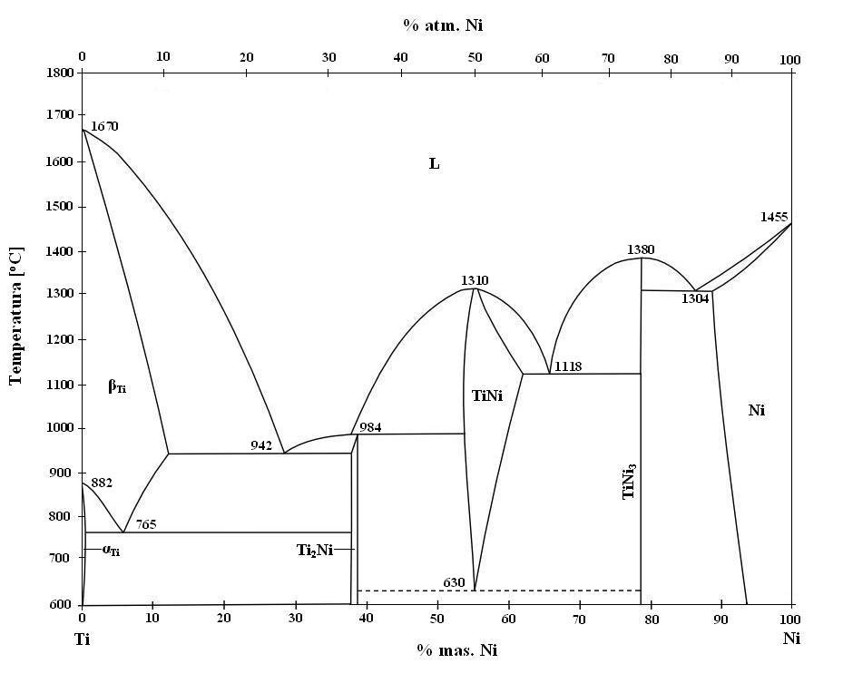 Binary phase diagram of NiTi with phases and temperature.Attention: Diagram have illustrative and educational value. Some of the points and temperatures ​​over time may change due to the use better equipment and get much more pure alloys. Diagram made ​​on the basis of numerous dates from the literature in Polish and English language.